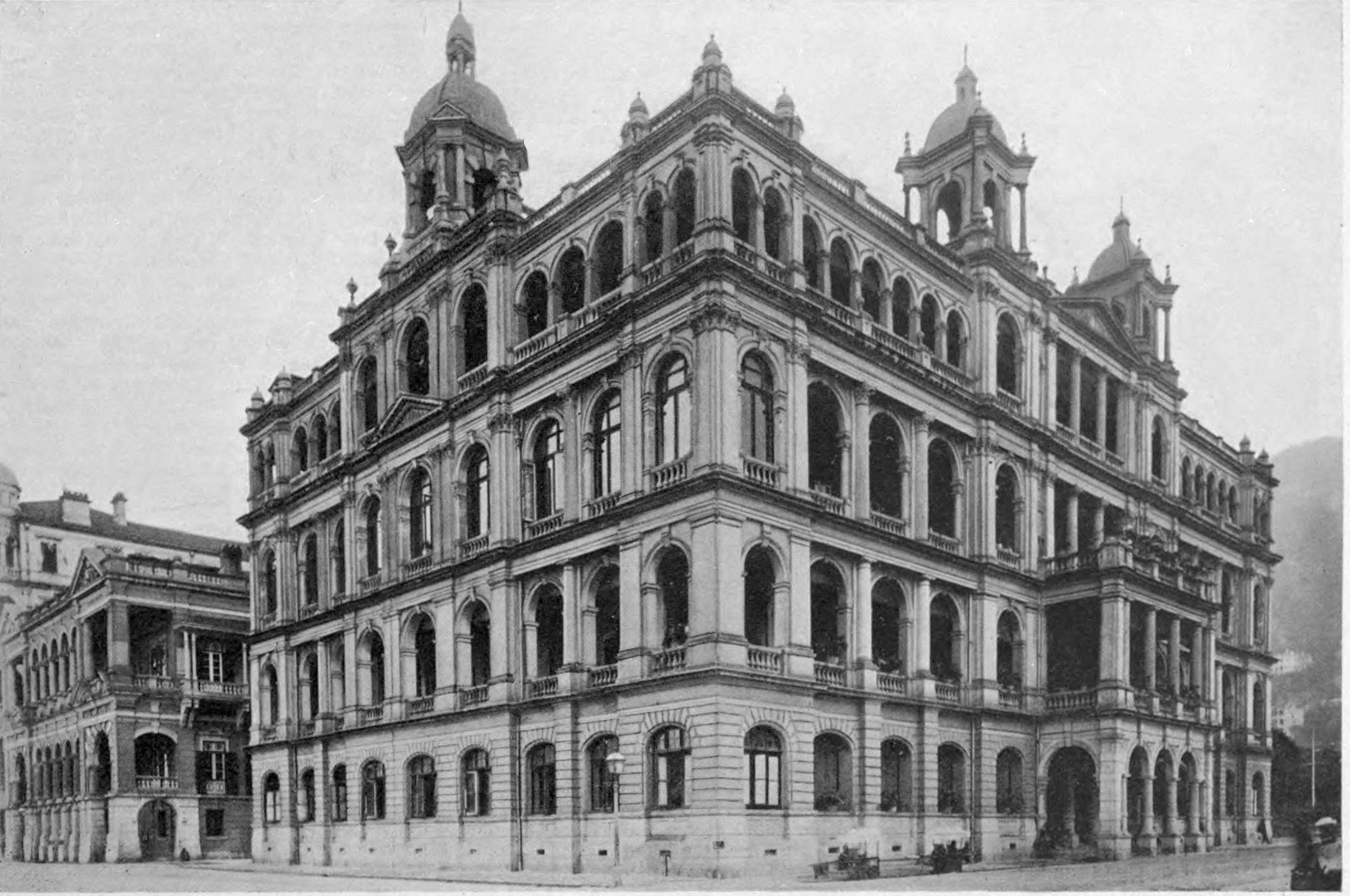 The Hong Kong Club